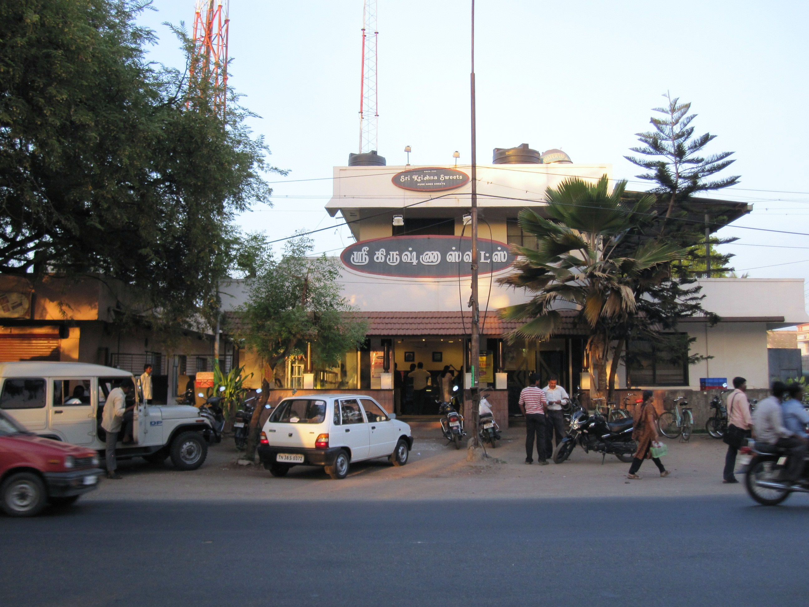 A front view of a Sri Krishna Sweets outlet at Kavundampalayam, Coimbatore